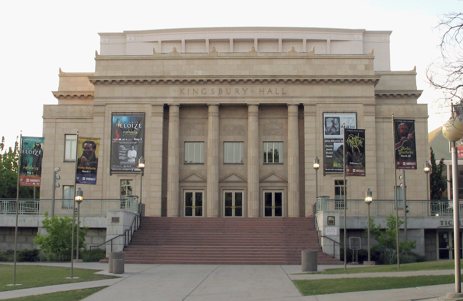 Kingsbury Hall at the University of Utah campus in Salt Lake City, Utah